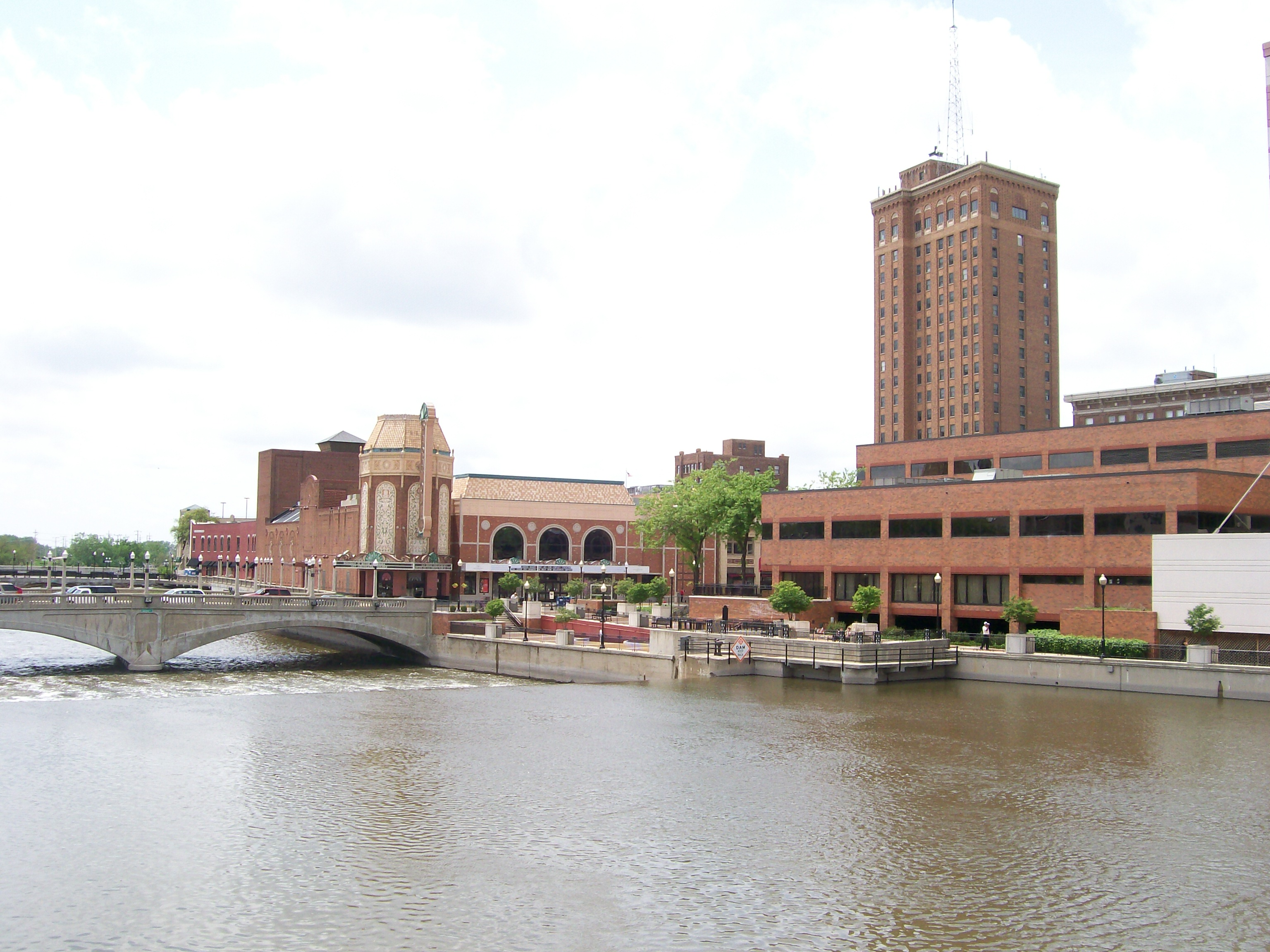 Aurora, Illinois: view of Fox River, Paramount Theater, Civic Center, Riverwalk, and Leland Tower